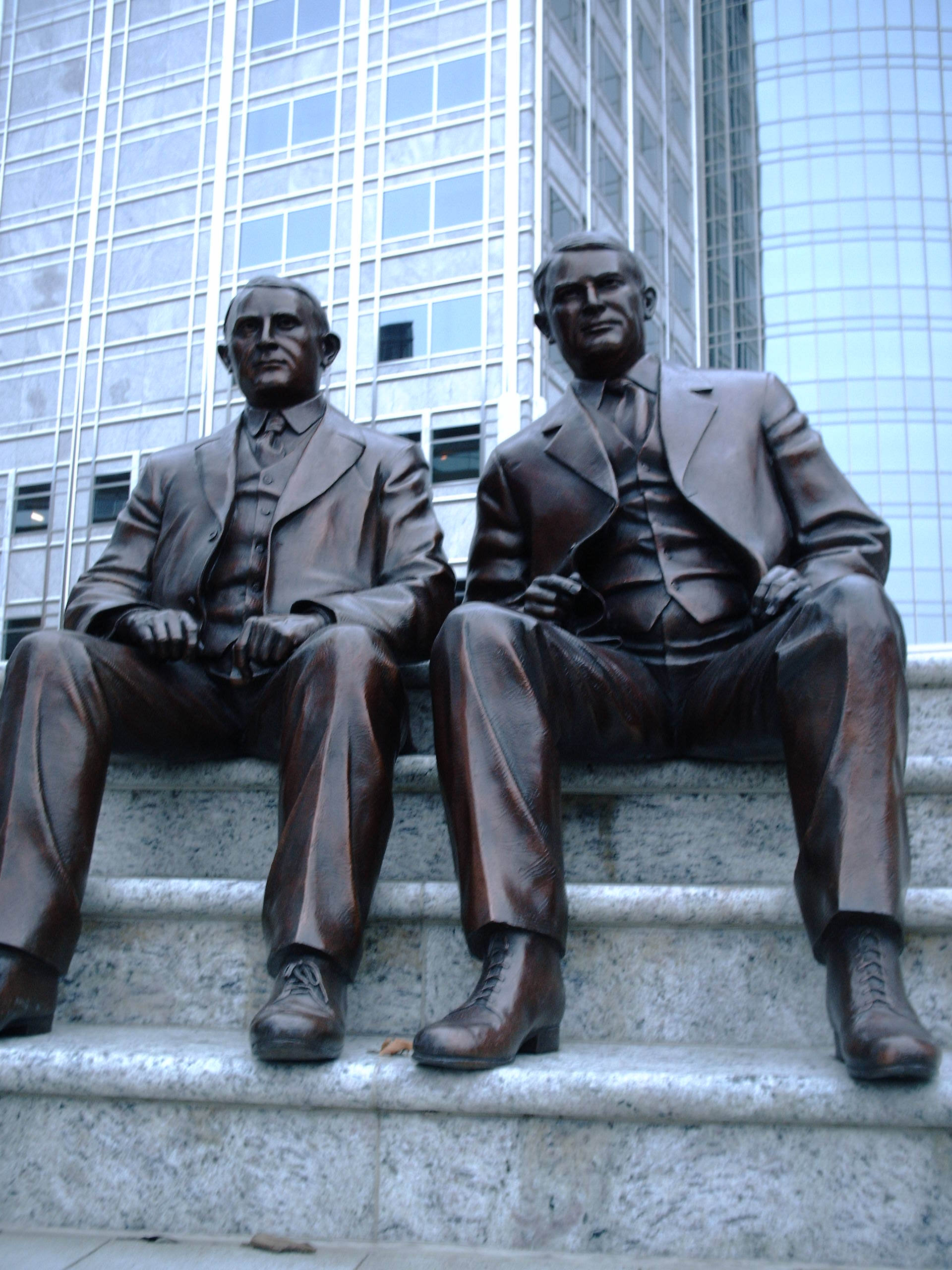 Photo I took in Rochester, Minnesota 2005-12-31: statues of the Mayo Brothers in front of the Gonda Building of the Mayo Clinic Category:Images of Minnesota